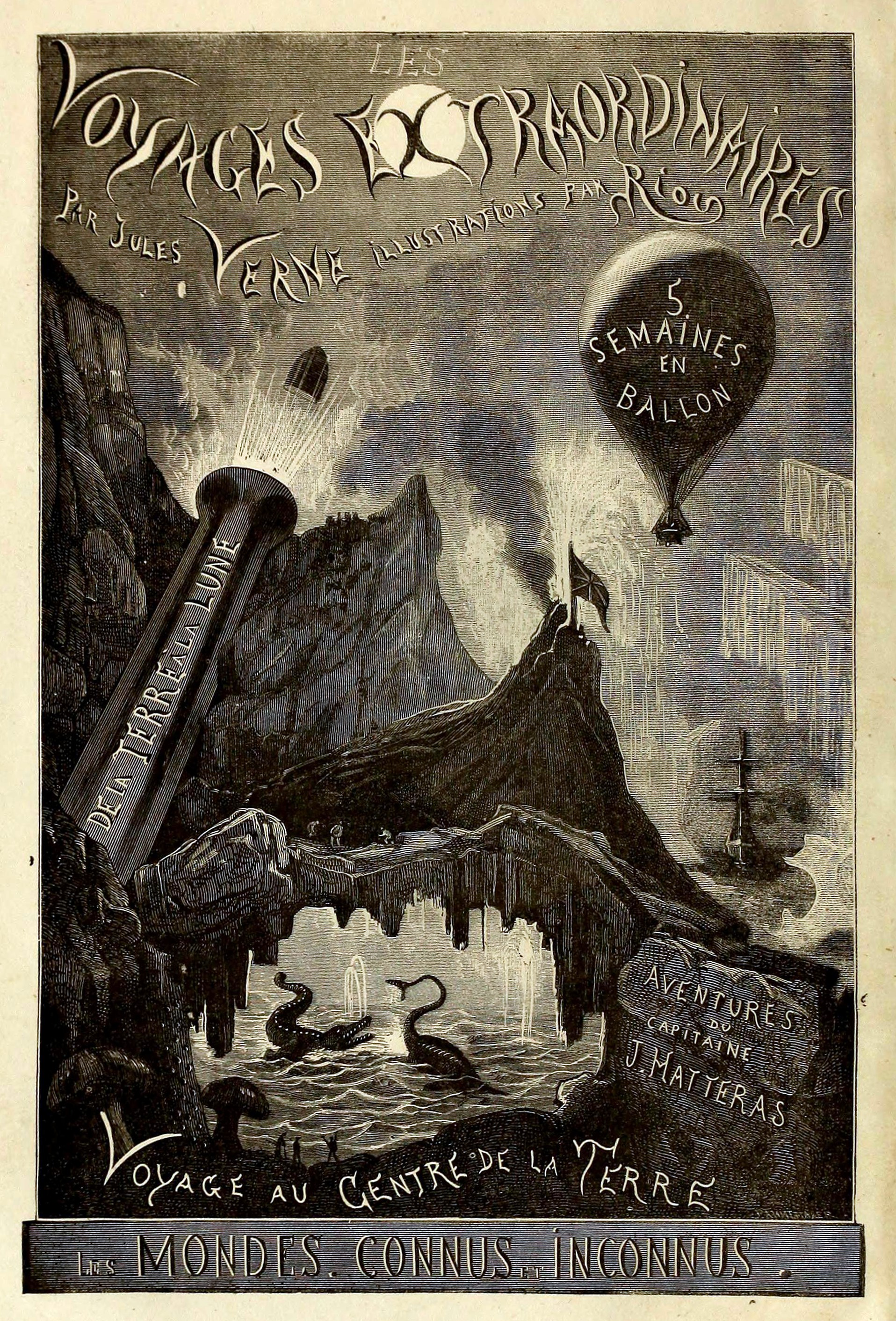 Frontispiece printed in an 1867 Hetzel edition of Jules Verne's Voyages et aventures du capitaine Hatteras, identifying that novel and three other Verne works (Cinq semaines en ballon, Voyage au centre de la terre, and De la terre à la lune) as entries in the "Voyages Extraordinaires" series.